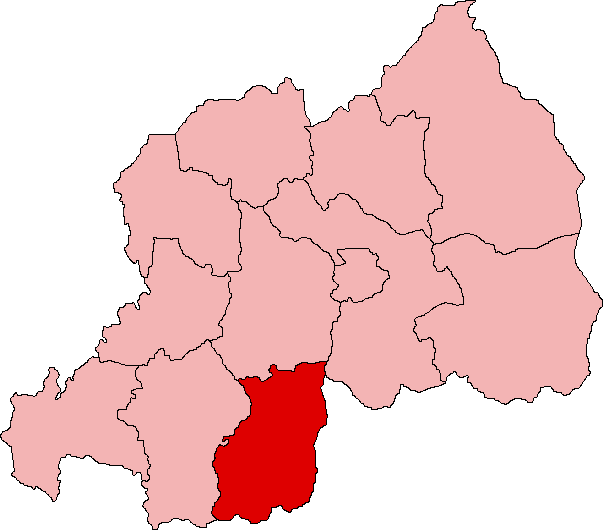 Map of Rwanda showing Butare Province; created with the GIMP.